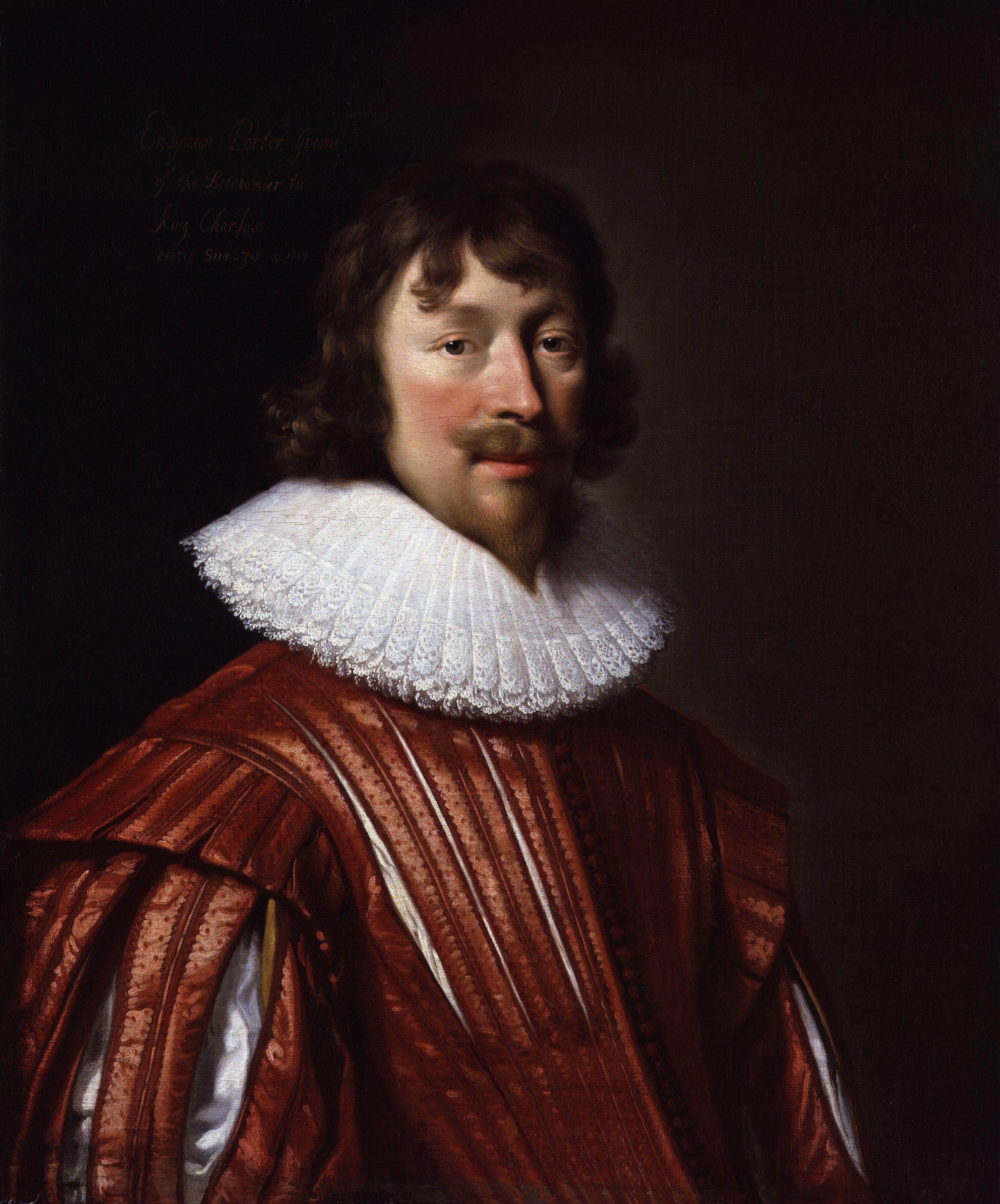 Endymion Porter (1587–1649), was an English diplomat and royalist. Painting, by Daniel Mytens (died 1647). All images in this batch have been confirmed as author died before 1939 according to the official death date listed by the NPG.